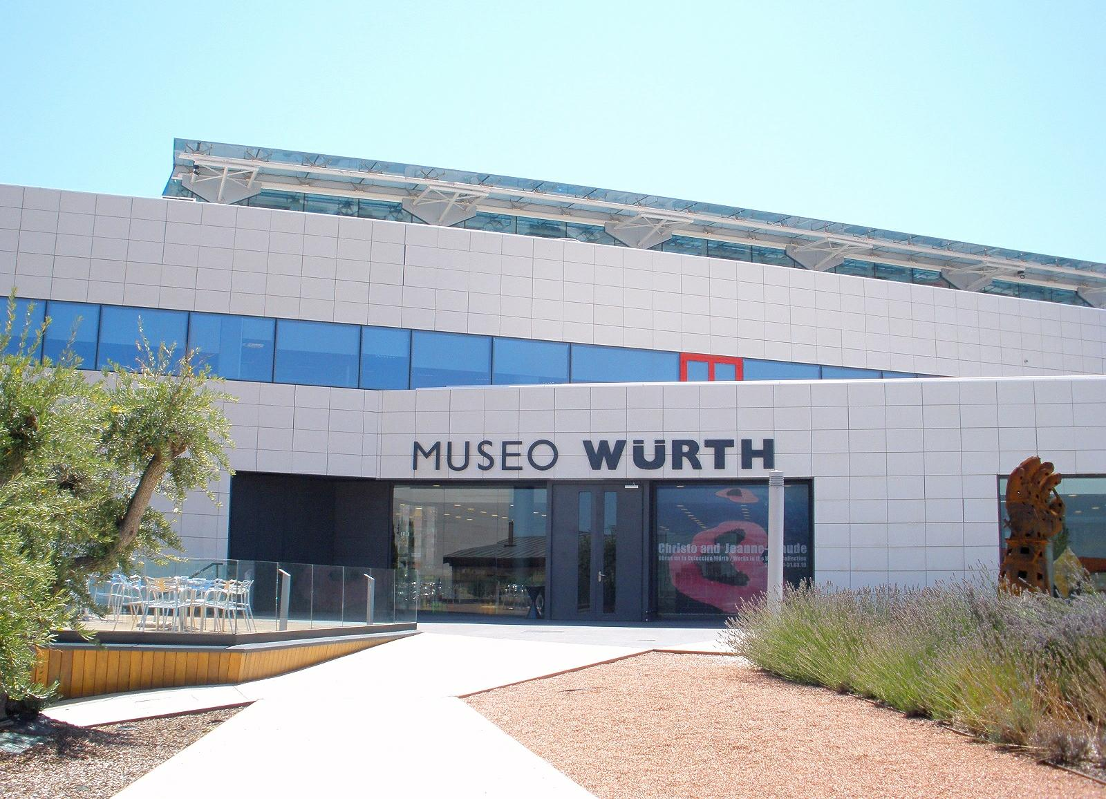 Museo Würth La Rioja (Agoncillo, La Rioja, España)